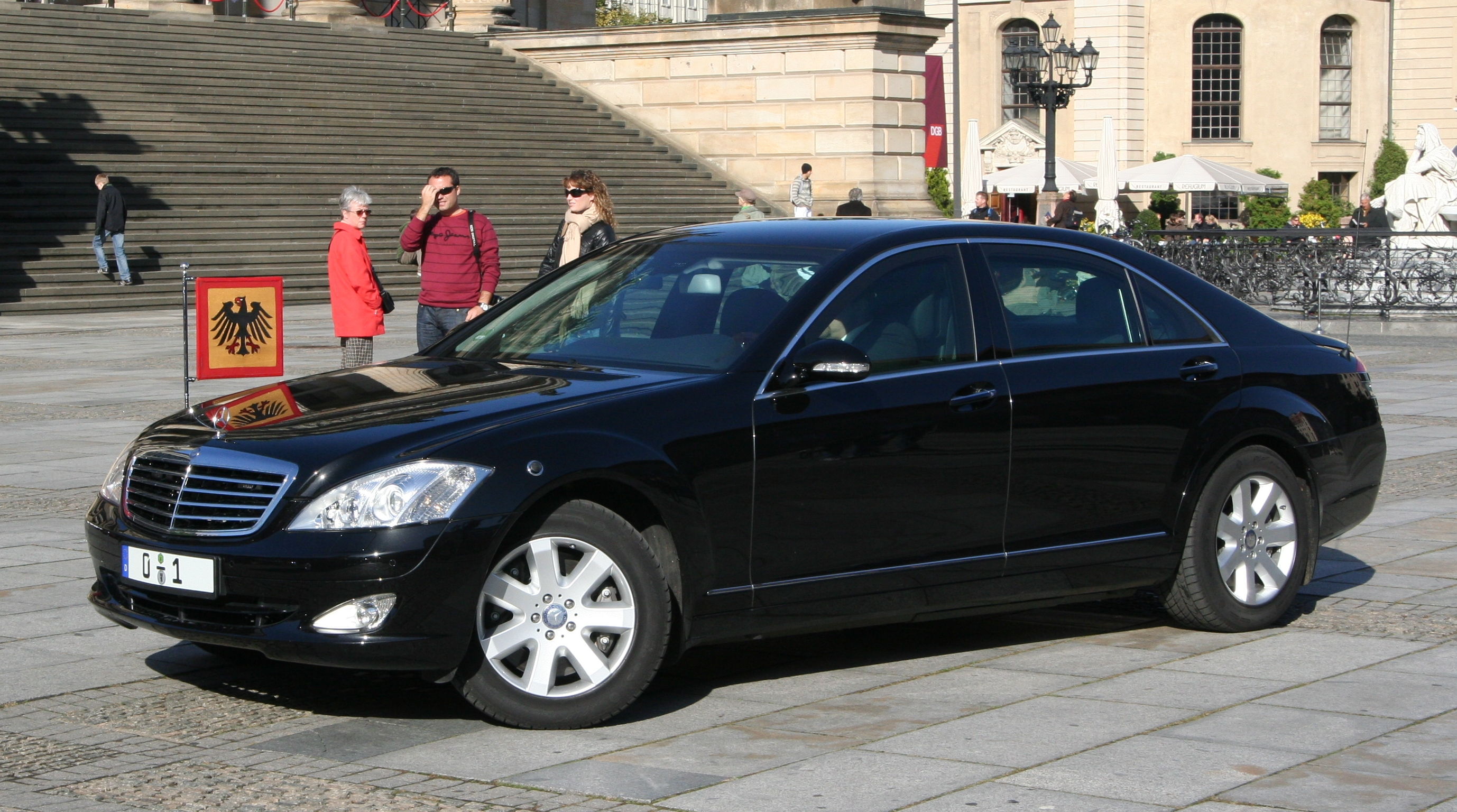 The limousine of the President of Germany which can be distinguished from other cars by the vehicle registration plate "0-1"